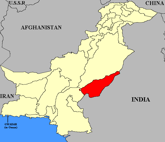 Approximate location of the former princely state of Bahawalpur within Pakistan